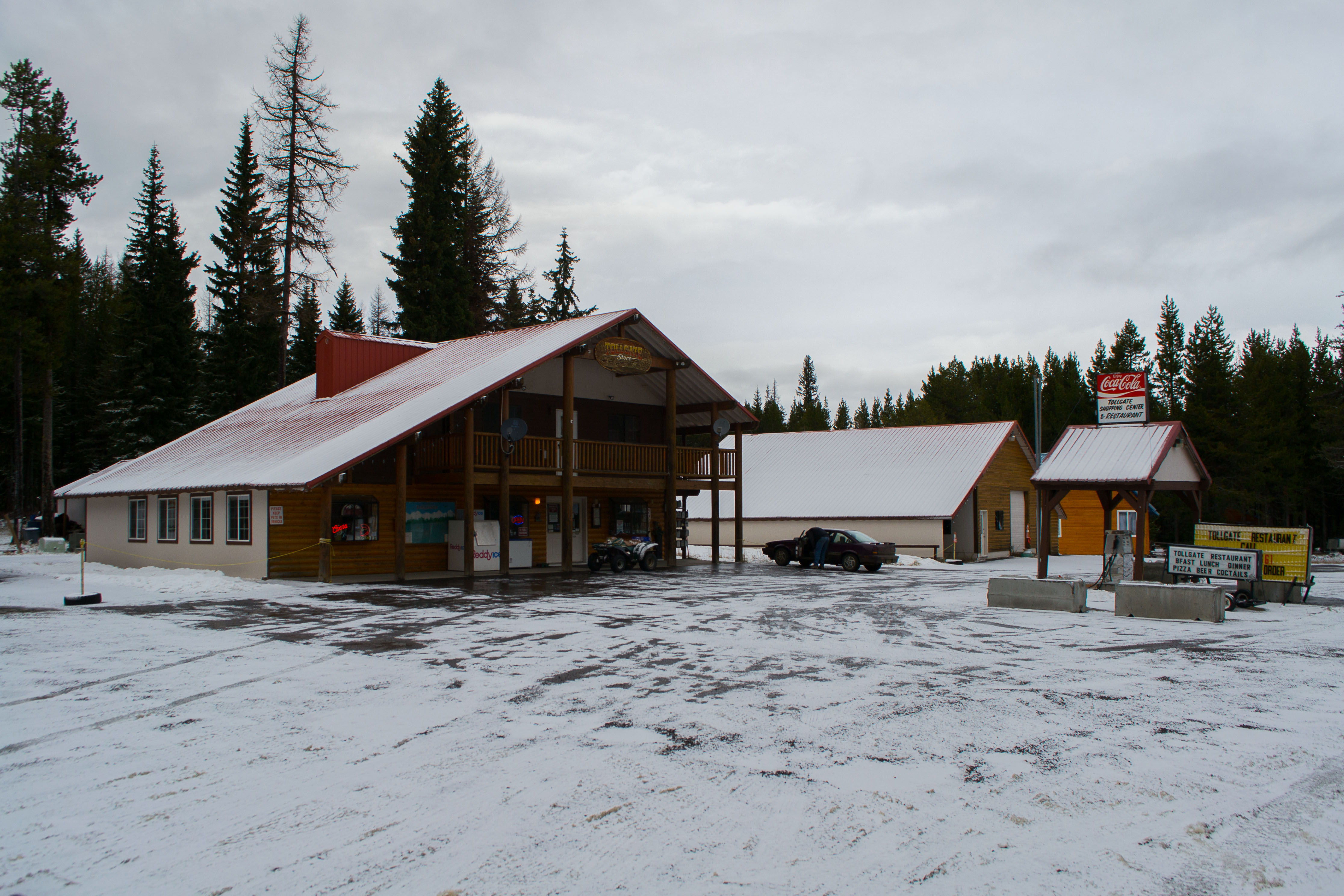 Snow is rarely in short supply at the Tollgate Shopping Center.